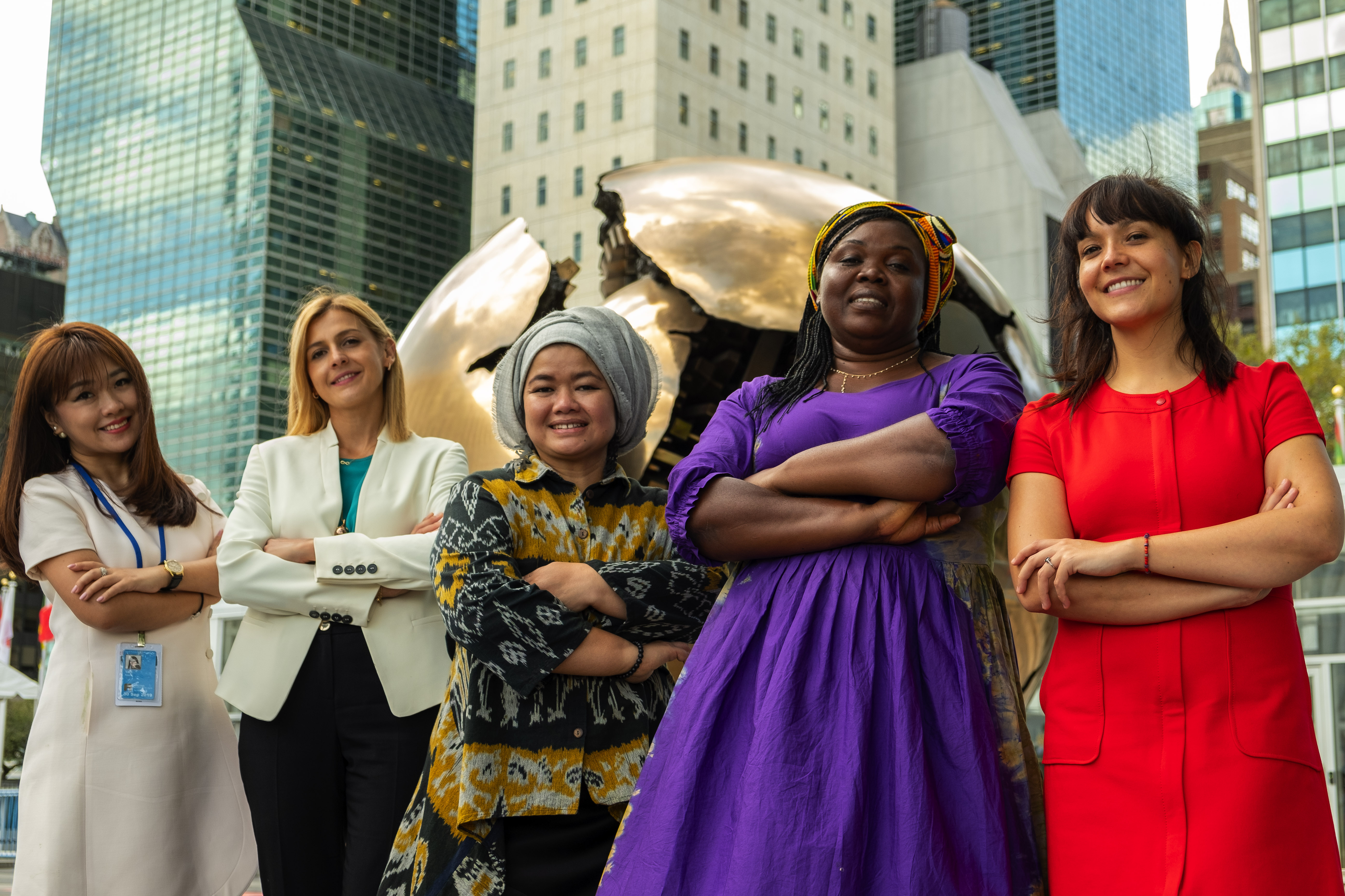 Helianti Hilman, Patricia Zoundi Yao loaded by Victuallers